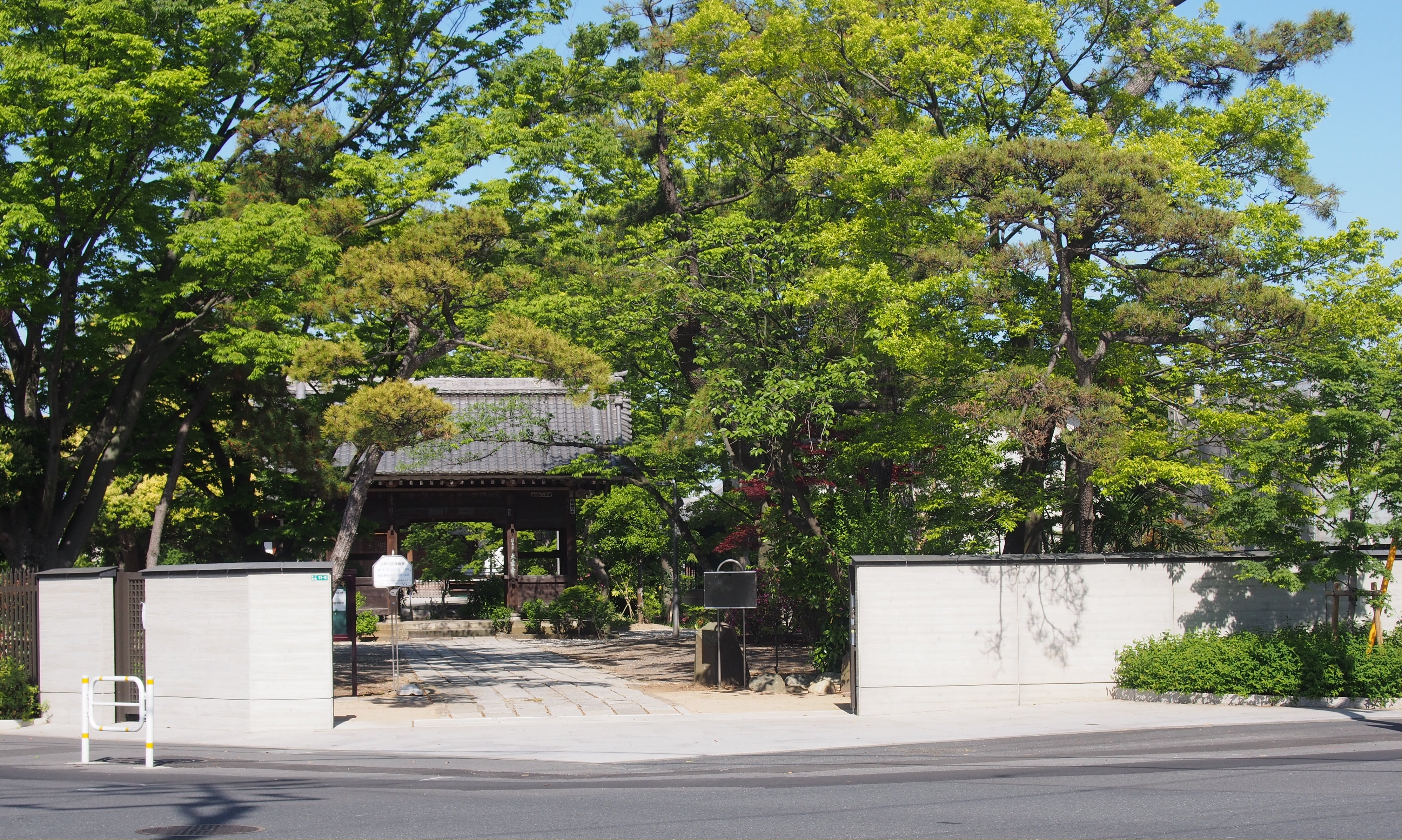 A photo of the entrance of Daiunji temple,Nishimizue,Edogawa-ku,Tokyo,Japan.